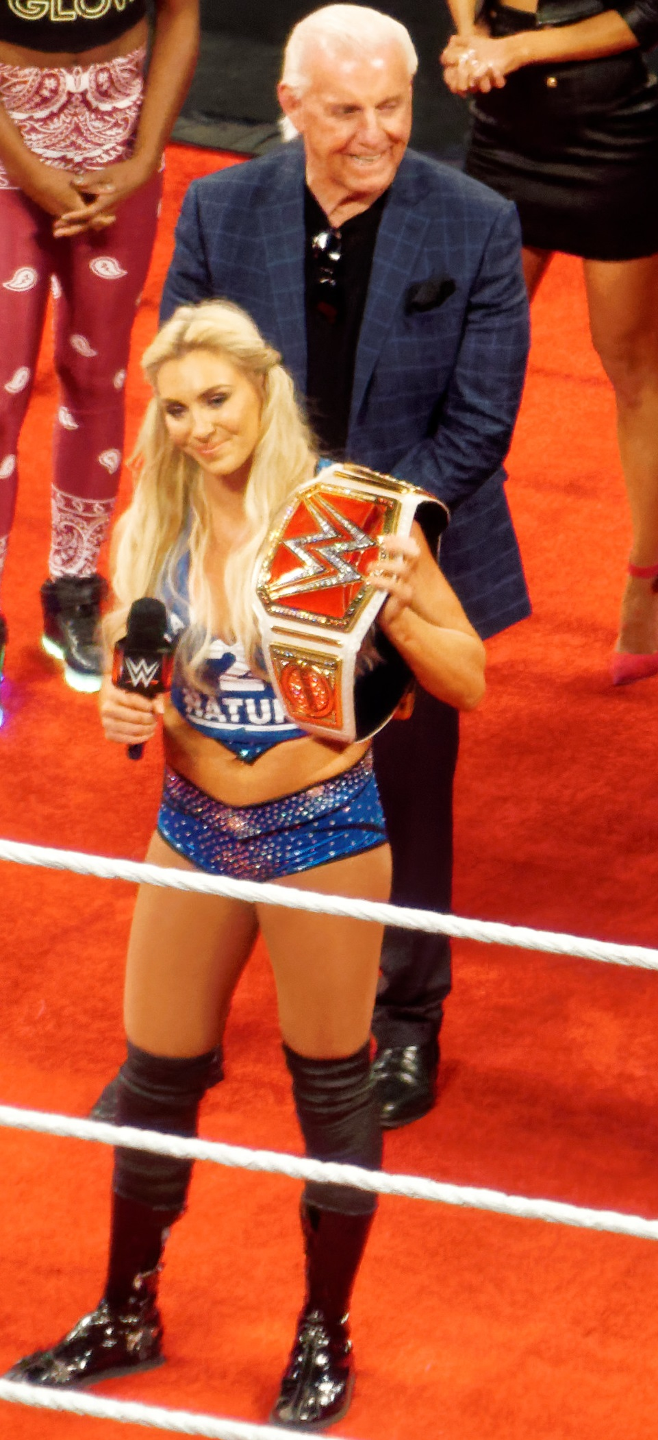 Charlotte posing with the WWE Women's Champion one night after WrestleMania 32 on Raw in April 4, 2016.